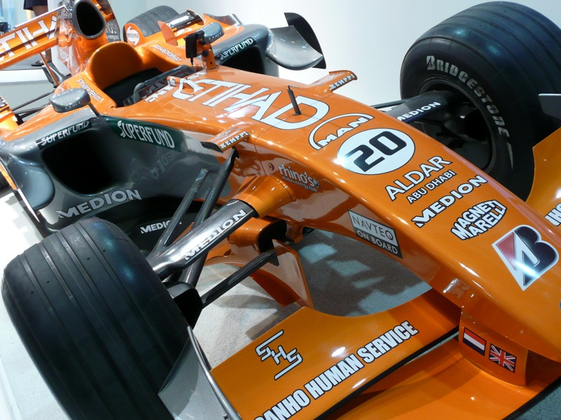 A Spyker F8-VII Formula One chassis on display in Berlin.